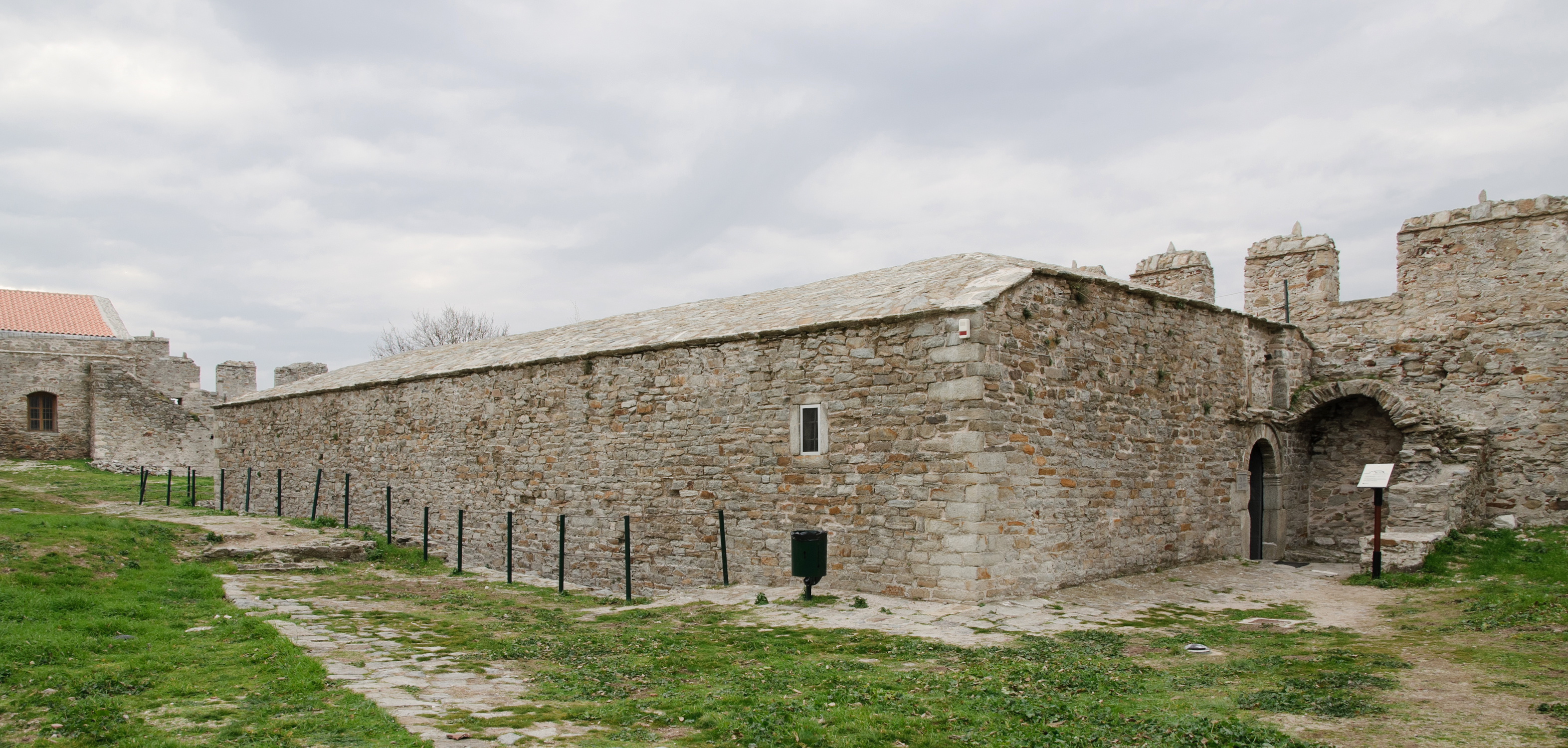 The Arsenal and food storage in the Kavala castle, Greece. Built c. 1530. In the 18th century it was converted into a prison.